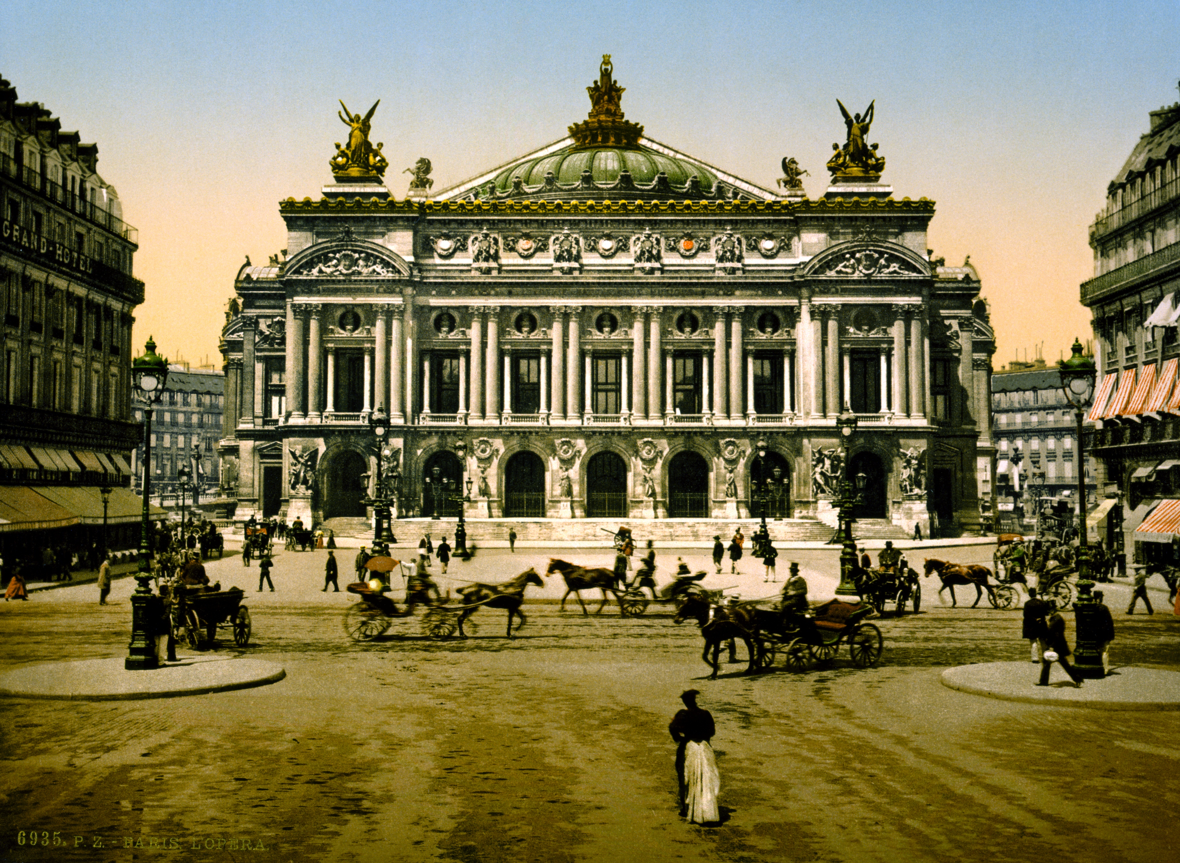 The Opera House, Paris, France ca. 1890-1900